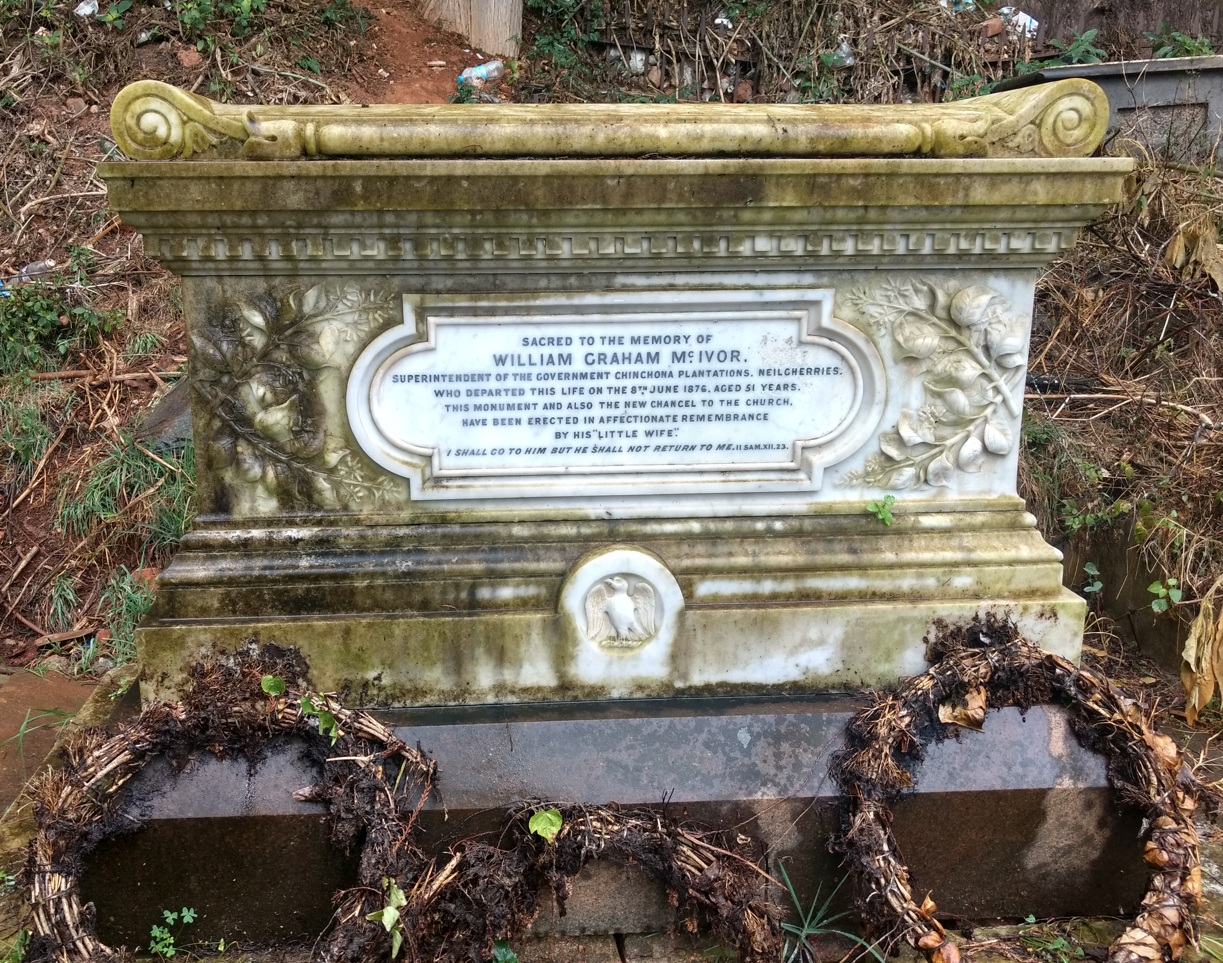 Tomb of William Graham McIvor at Ootacamund. The sides show a Cinchona plant.